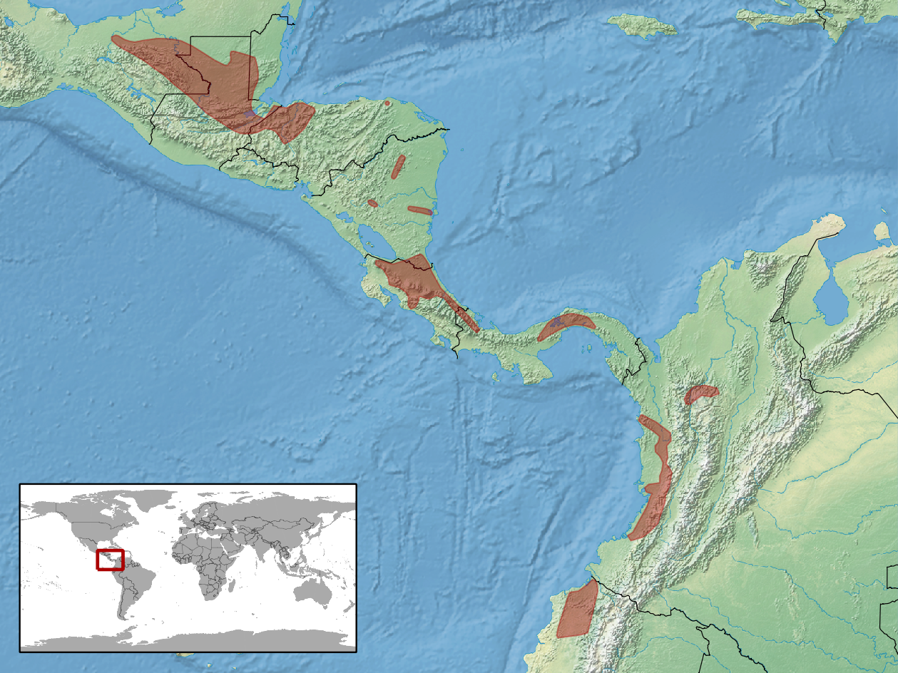 geographic distribution of Porthidium nasutum (Native: Belize; Colombia; Costa Rica; Ecuador; Guatemala; Honduras; Mexico; Nicaragua; Panama)